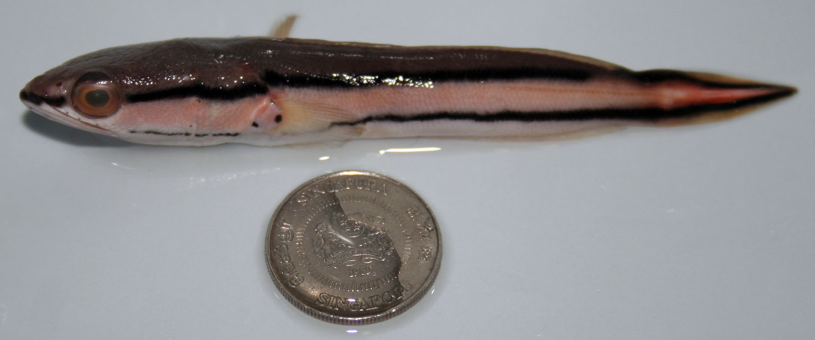 9 cm long juvenile giant snakehead in comparison to a Singaporean 10 cent coin (18.5mm diameter).